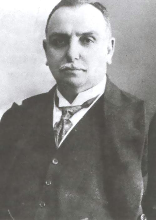 Portrait of Krikor Zohrab.